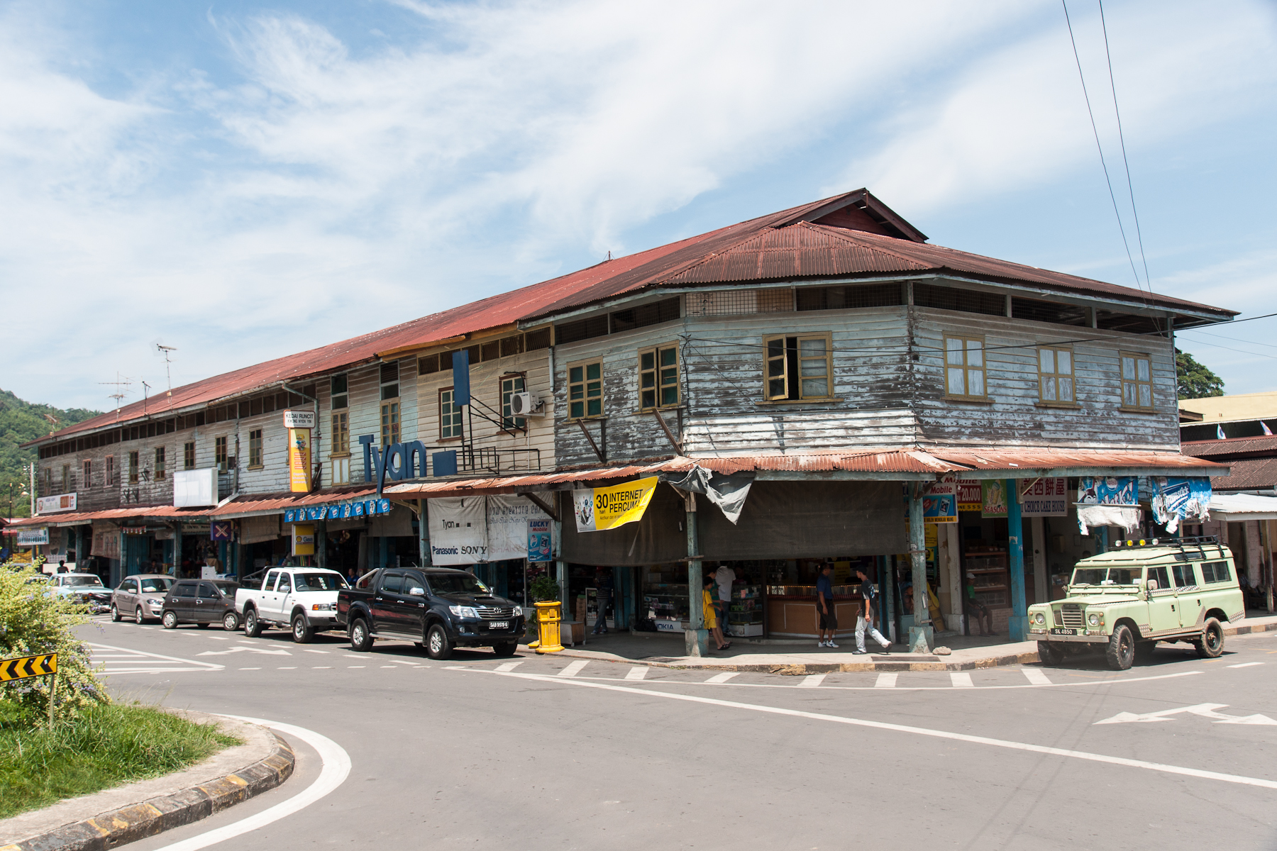 Old Shophouse in Tamparuli, Sabah